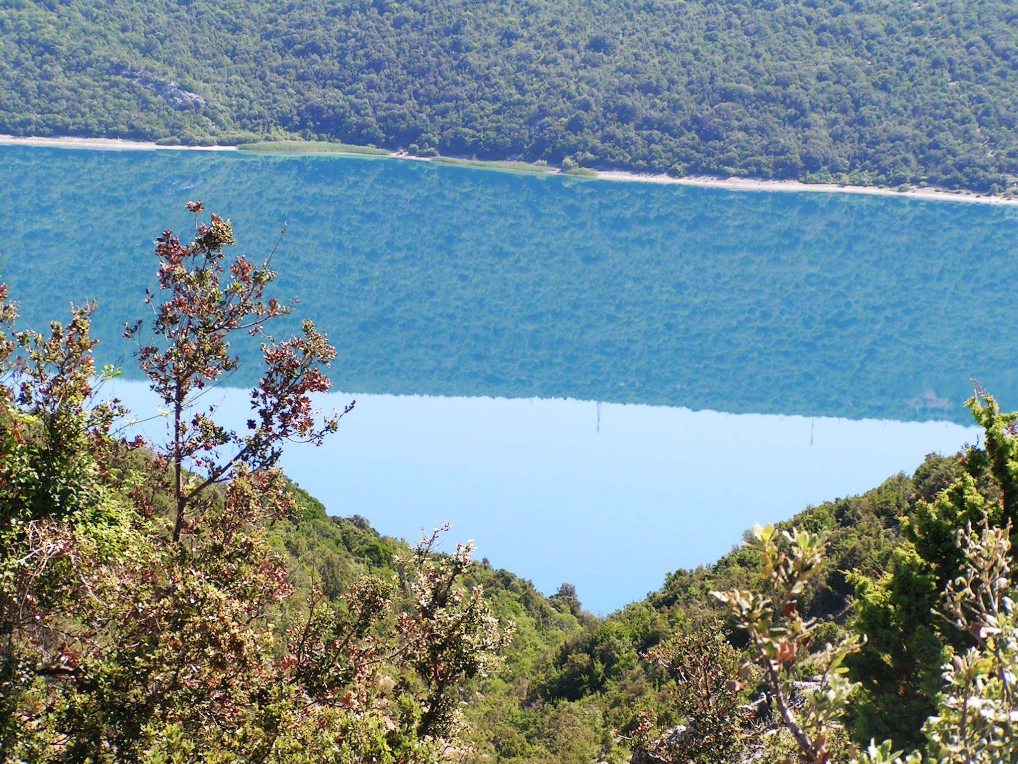 Vraner See, Cres, Croatia